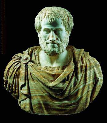 bust of Aristoteles